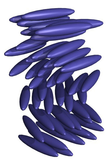 Schematic of mesogen order in the "cholesteric" (chiral nematic) liquid crystal phase. The rotation between adjacent mesogens gives rise to an overall chiral phase.